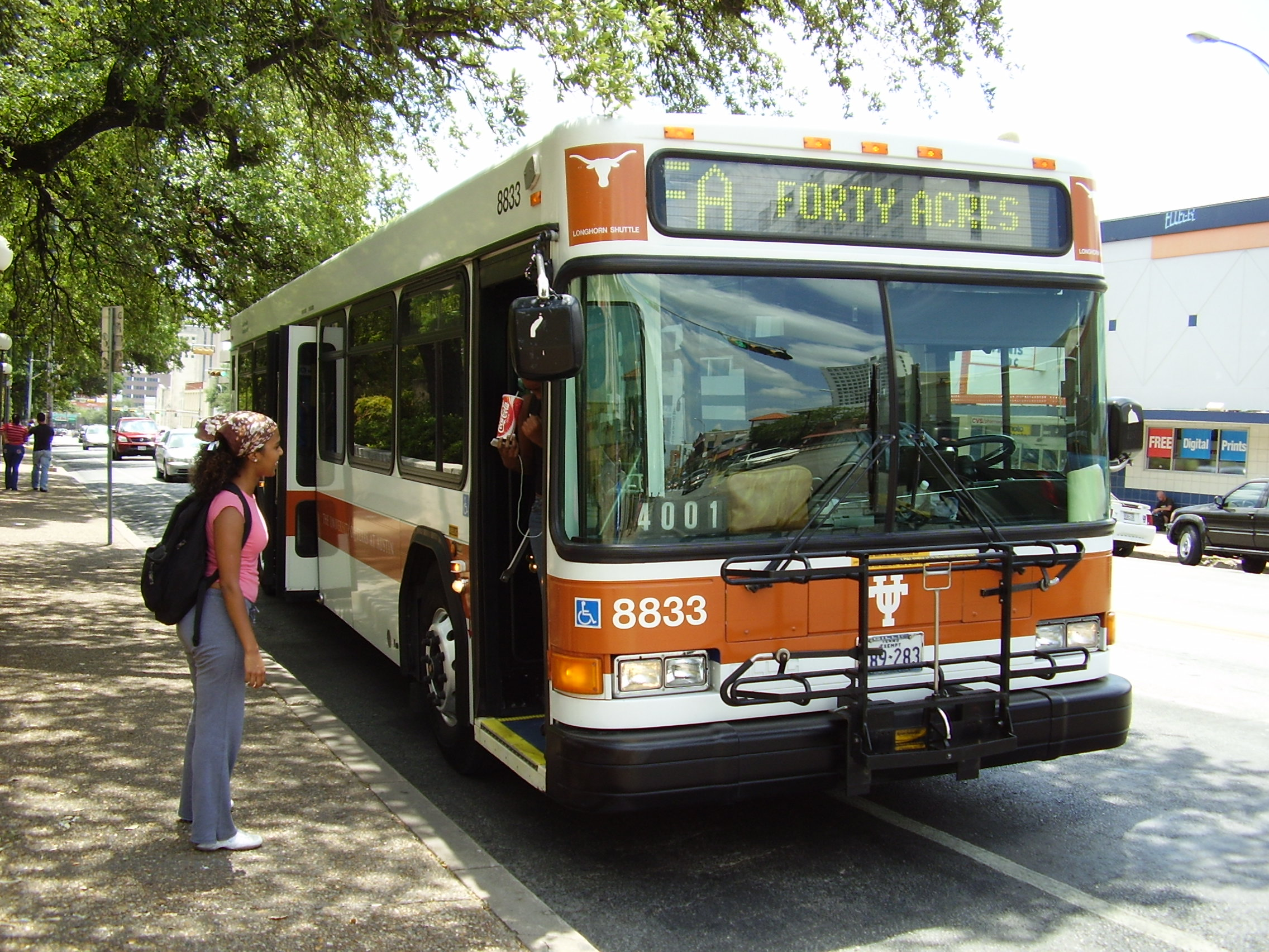 Taken by WhisperToMe